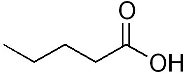 Chemical structure of valeric acid created with ChemDraw.